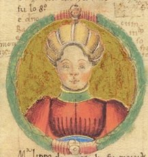 Lippa Ariosti, 2nd wife of Obizzo III d'Este